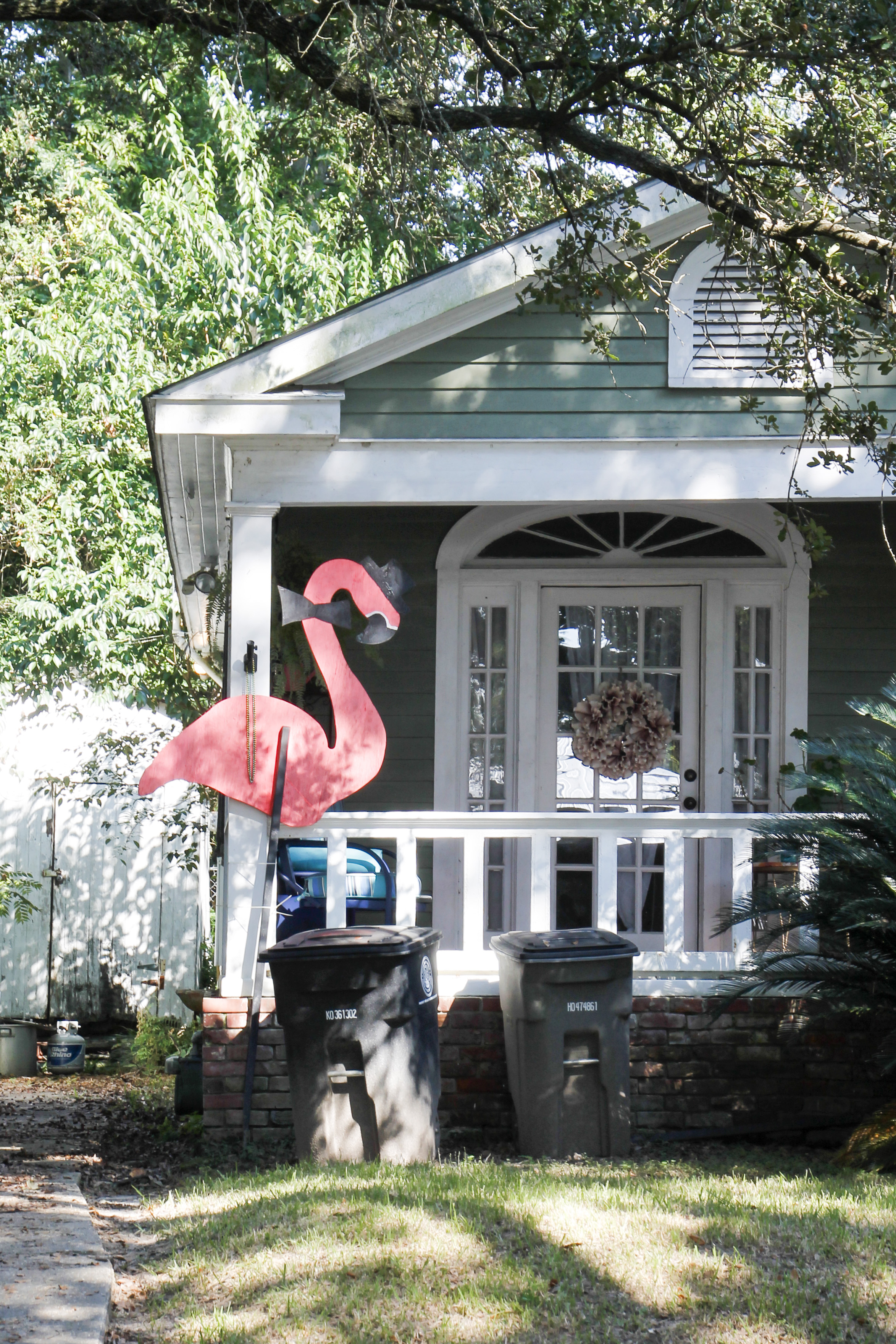 A house with an interesting decoration out front, a large pink flamingo.